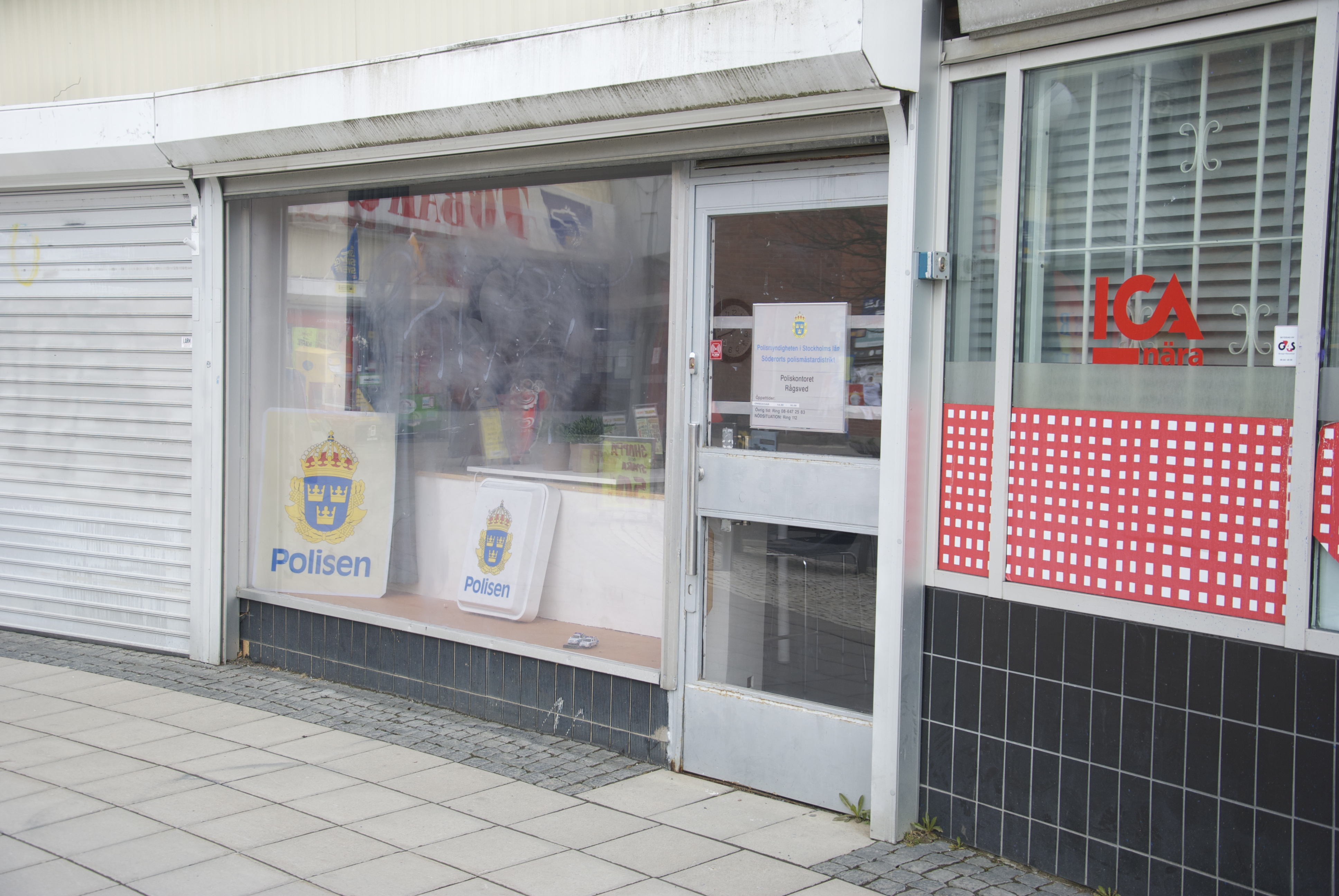 Rågsved centre. Rågsved is a suburb in the south of Stockholm, Sweden. Built in the 1950s.